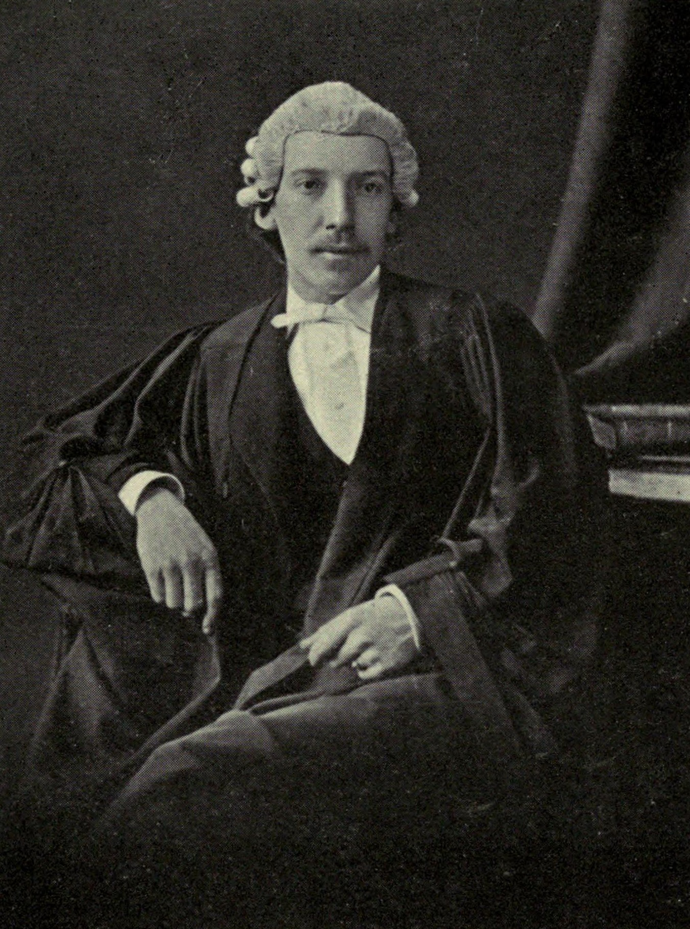 Robert Louis Stevenson as Advocate